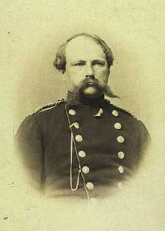 Adolph Frederik von Zepelin (1816-1892), Danish army officer